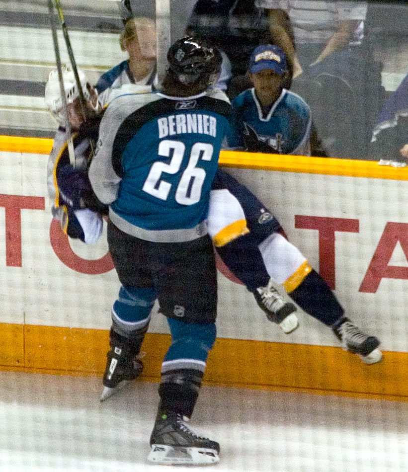 Nashville Predators at San Jose Sharks